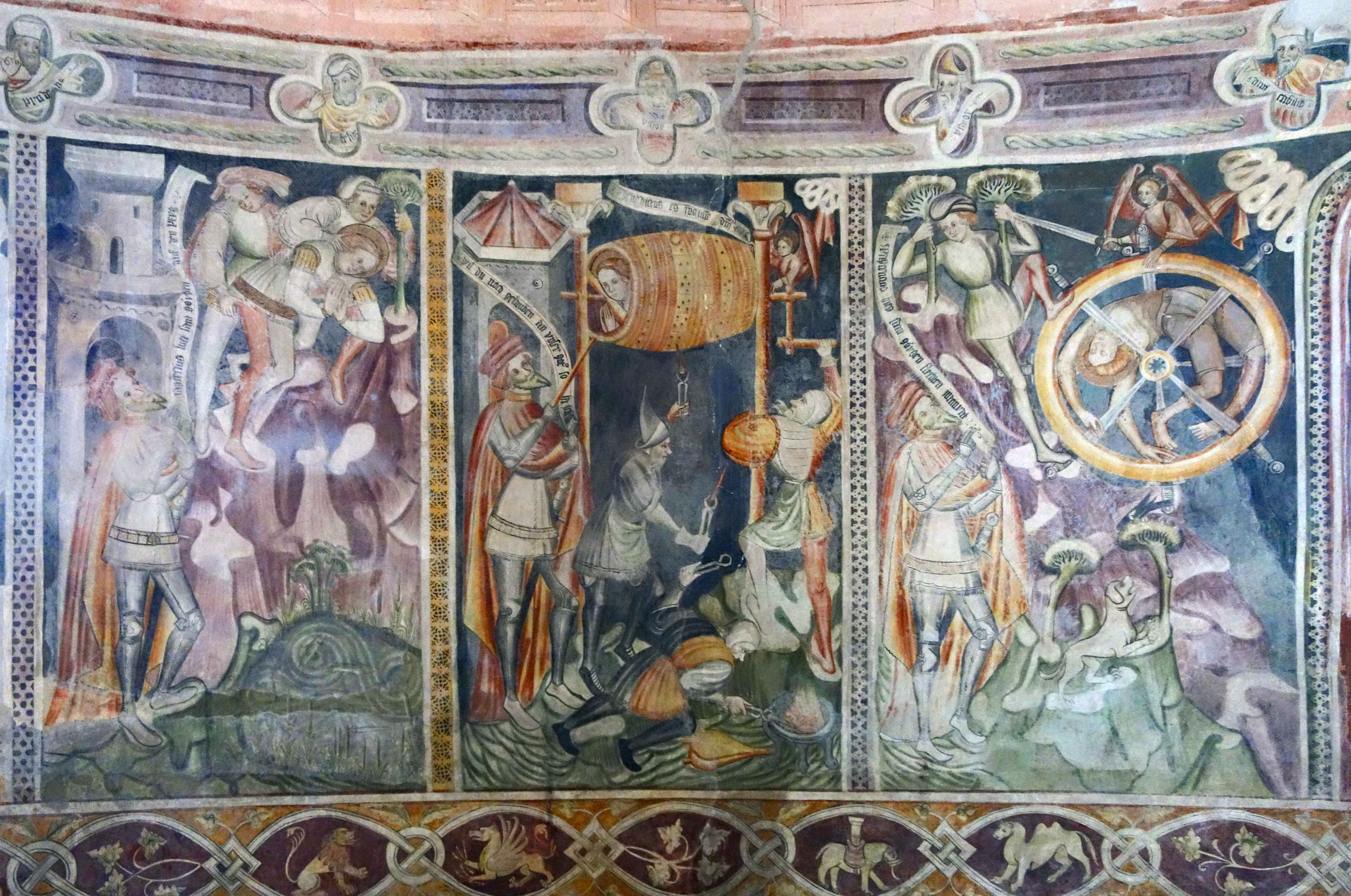 A fresco in the church of Saint George in Schenna, depicting Saint George's martyrdom